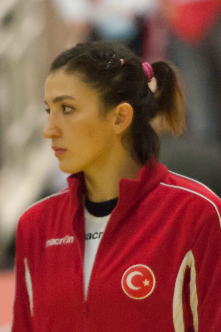 2015 World Women's Handball Championship Qualification 2014-12-06: Fatmagül Sakizcan